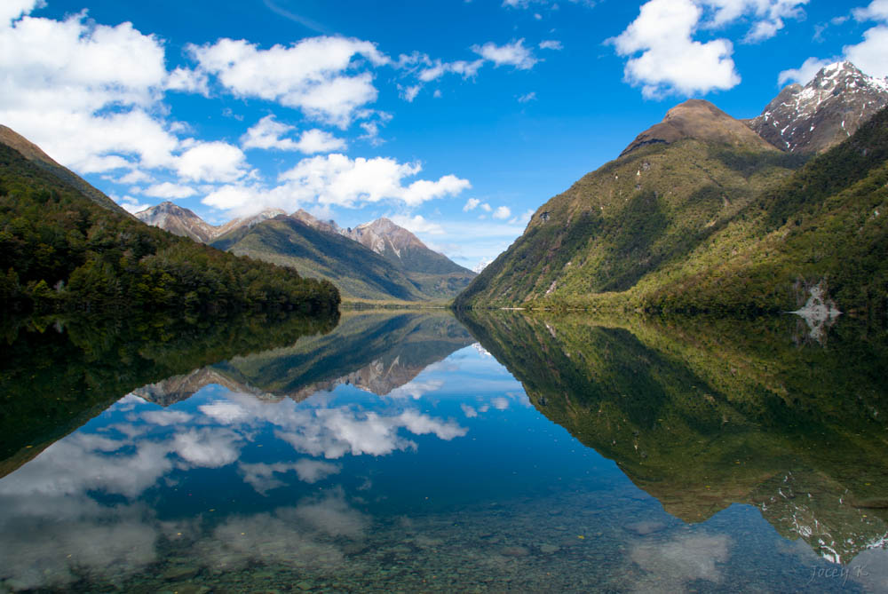 Lake Gunn, New Zealand